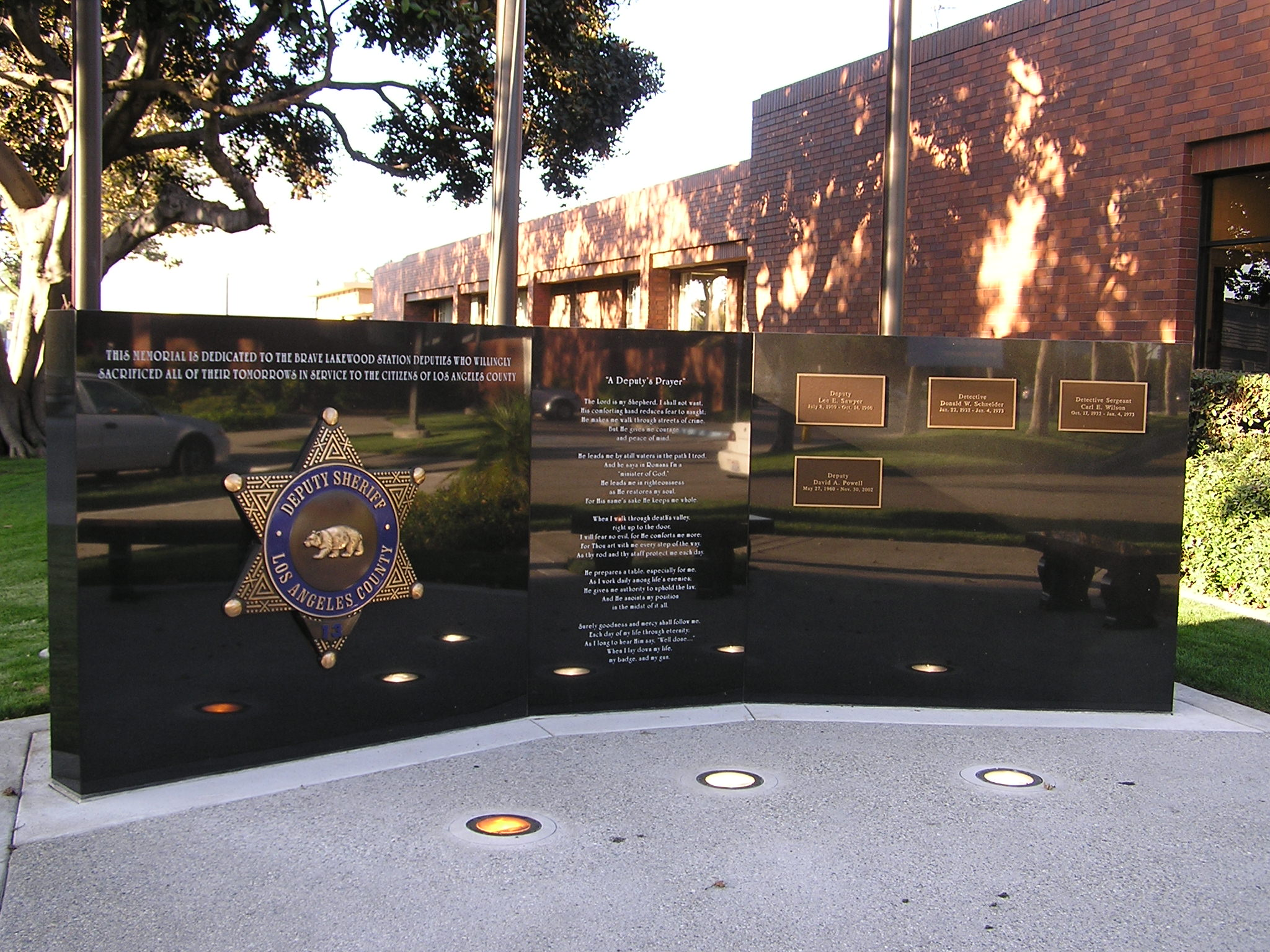 Monument to Los Angeles County Deputies assigned to the Lakewood Station that were killed in the line of duty. The Monument is found outside of the Sherriff's station in Lakewood, California.